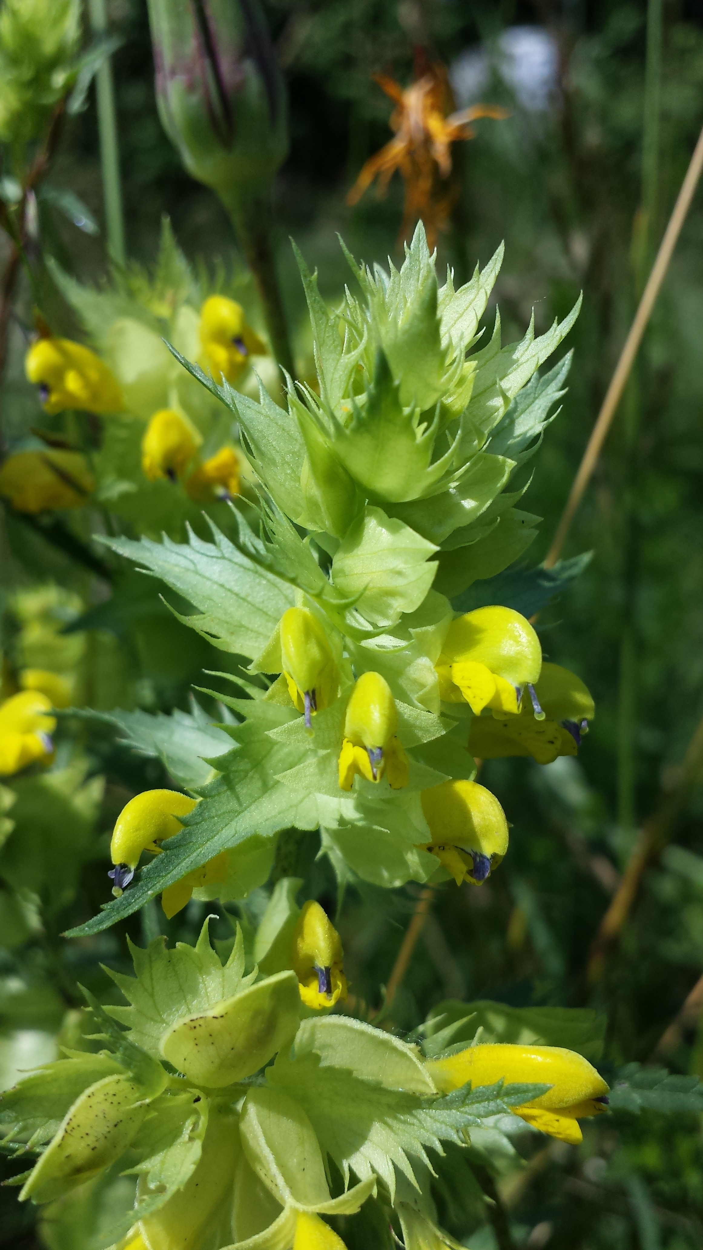 Inflorescence Taxonym: Rhinanthus serotinus ss Fischer et al. EfÖLS 2008 ISBN 978-3-85474-187-9 (det. M. A. Fischer 2013-06-08) Location: near Gramatneusiedl/Ebergassing, district Wien-Umgebung, Lower Austria - ca. 175 m a.s.l. Habitat: wet-dry meadow